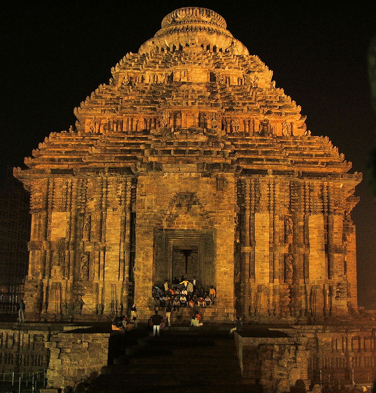 Konark sun temple at Night